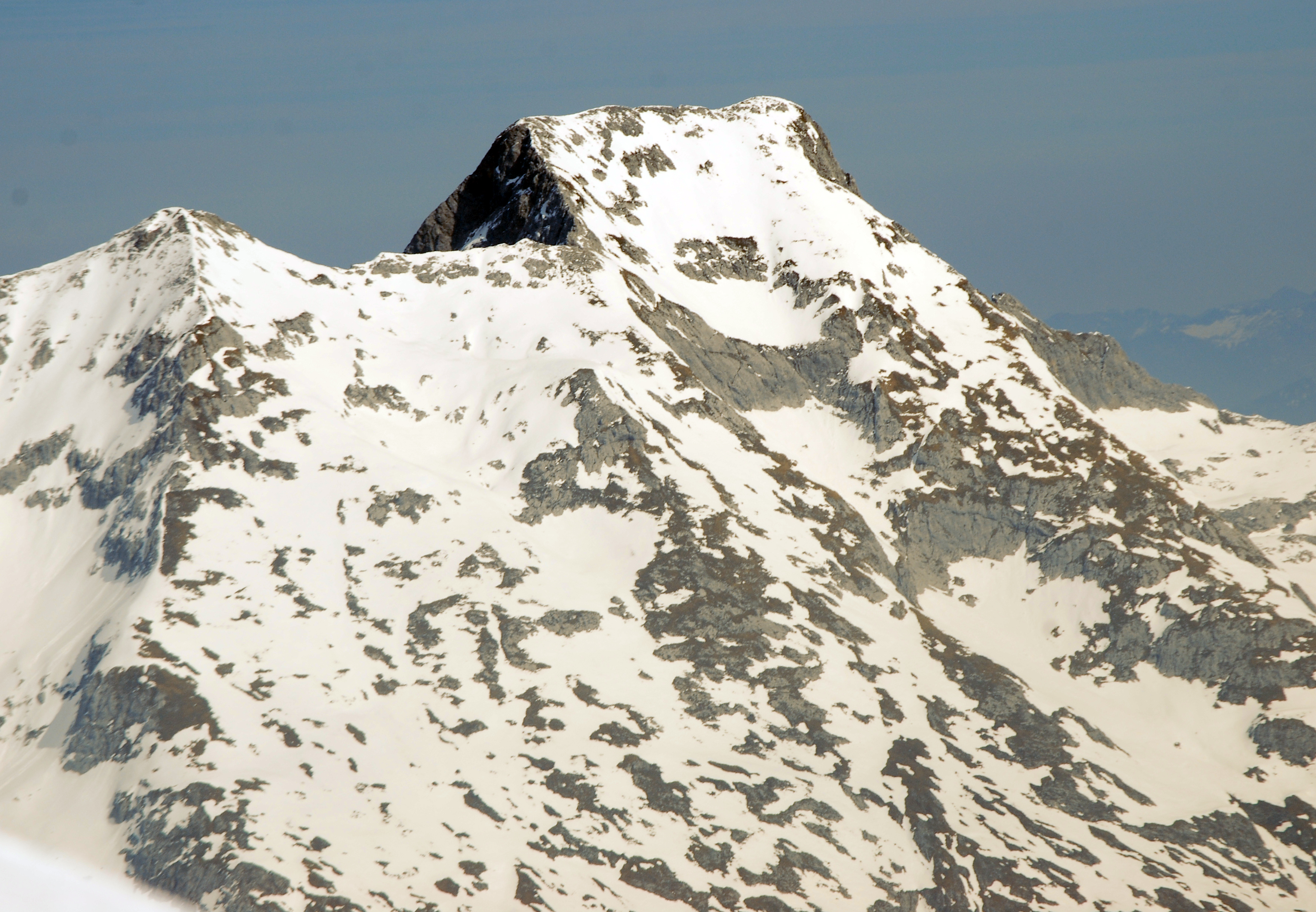 Schlichtenkarspitze, Vogelkarspitze from SW (Pleisenspitze)